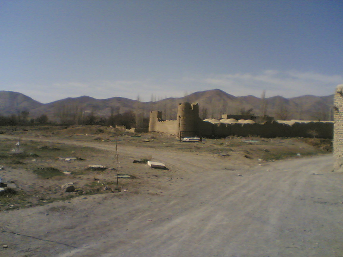 Old fort